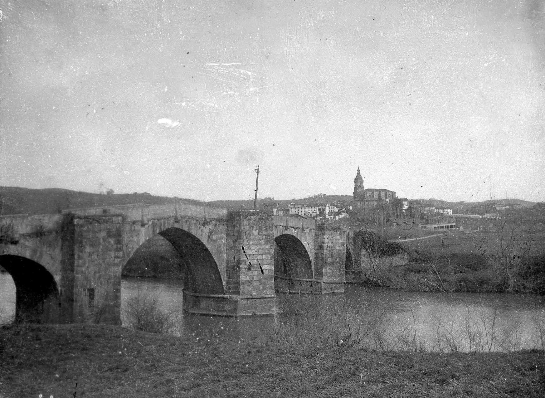 Bridge over Oria river in Usurbil.